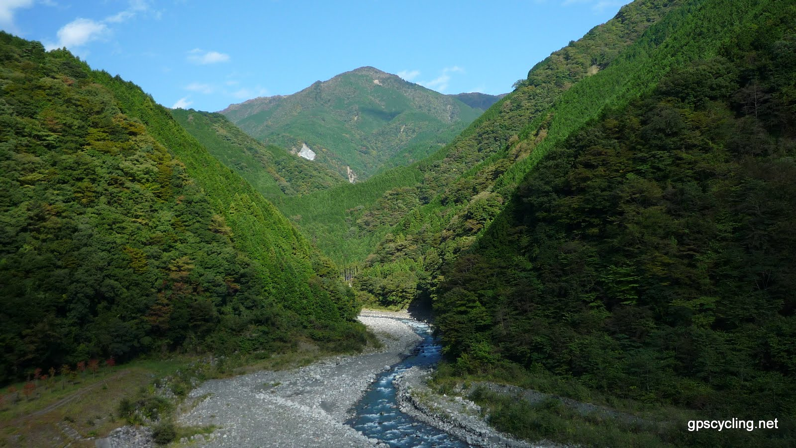 Abe River and Mount Jumai. Looking ENE.